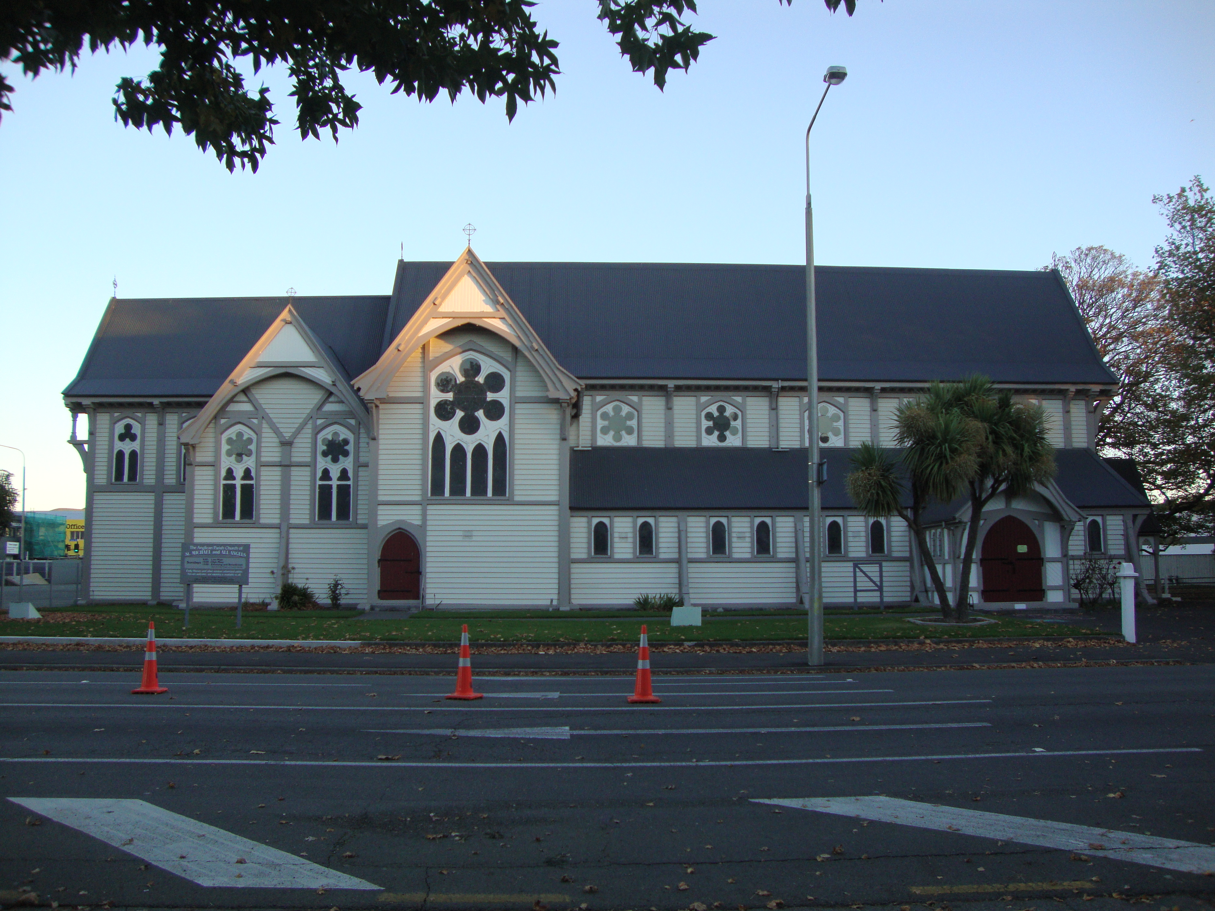 Church of St Michael and All Angels, Christchurch (north frontage)